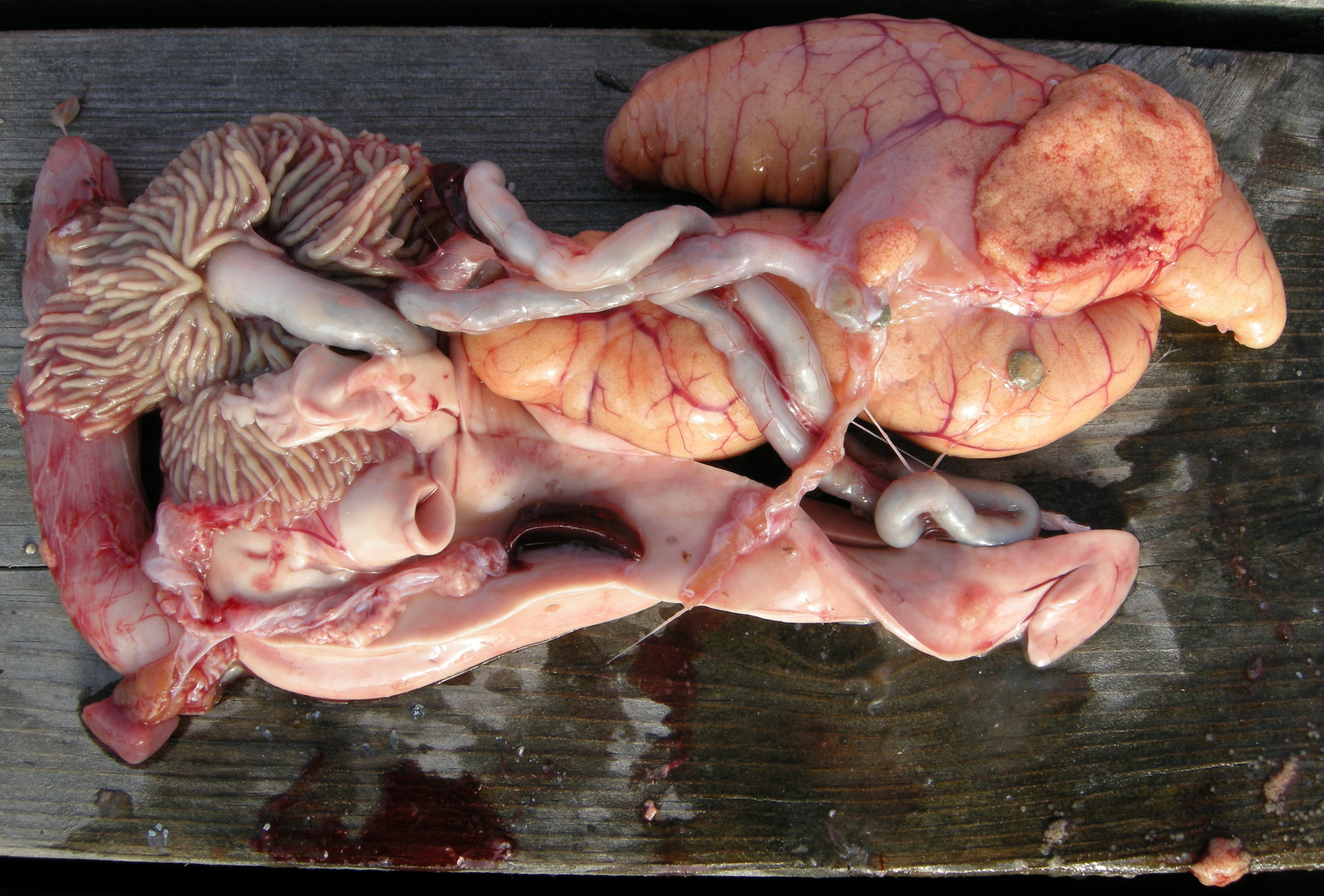 Pollack (Pollachius pollachius) - Entrails or guts. You are free to use this picture outside Wikipedia (see license), as long as you write: Photo: Arnstein Rønning